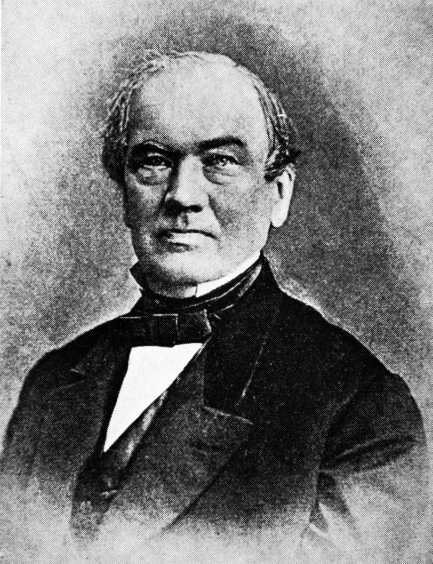 The german physician and natural scientist Gustav Woldemar Focke (1810–1877) from Bremen.